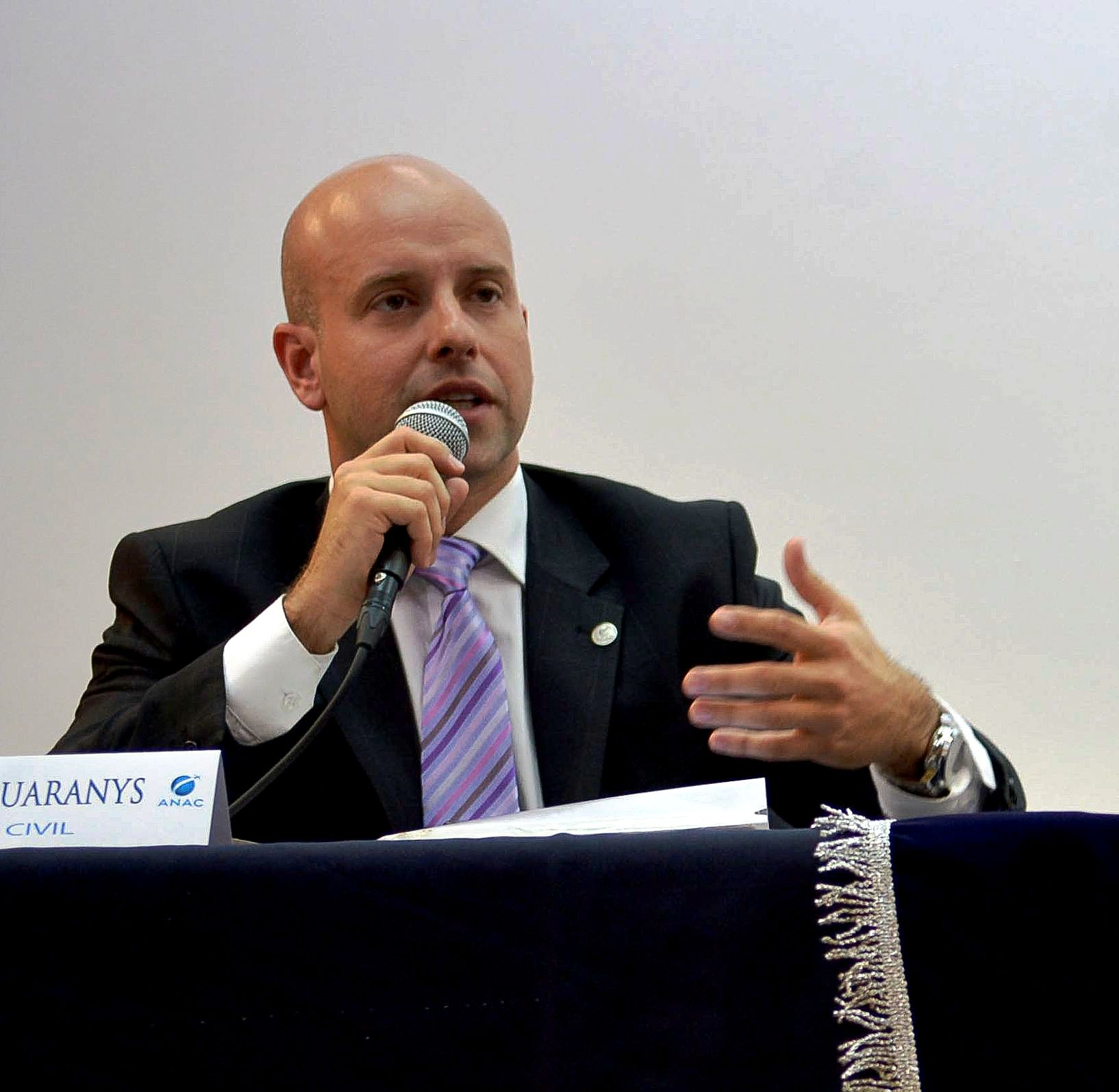 Marcelo Pacheco dos Guaranys. Photo by Antônio Cruz/Agência Brasil published under a CCBY3.0 license